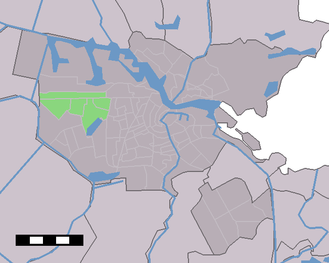 Location of neighbourhoods/districts in Amsterdam